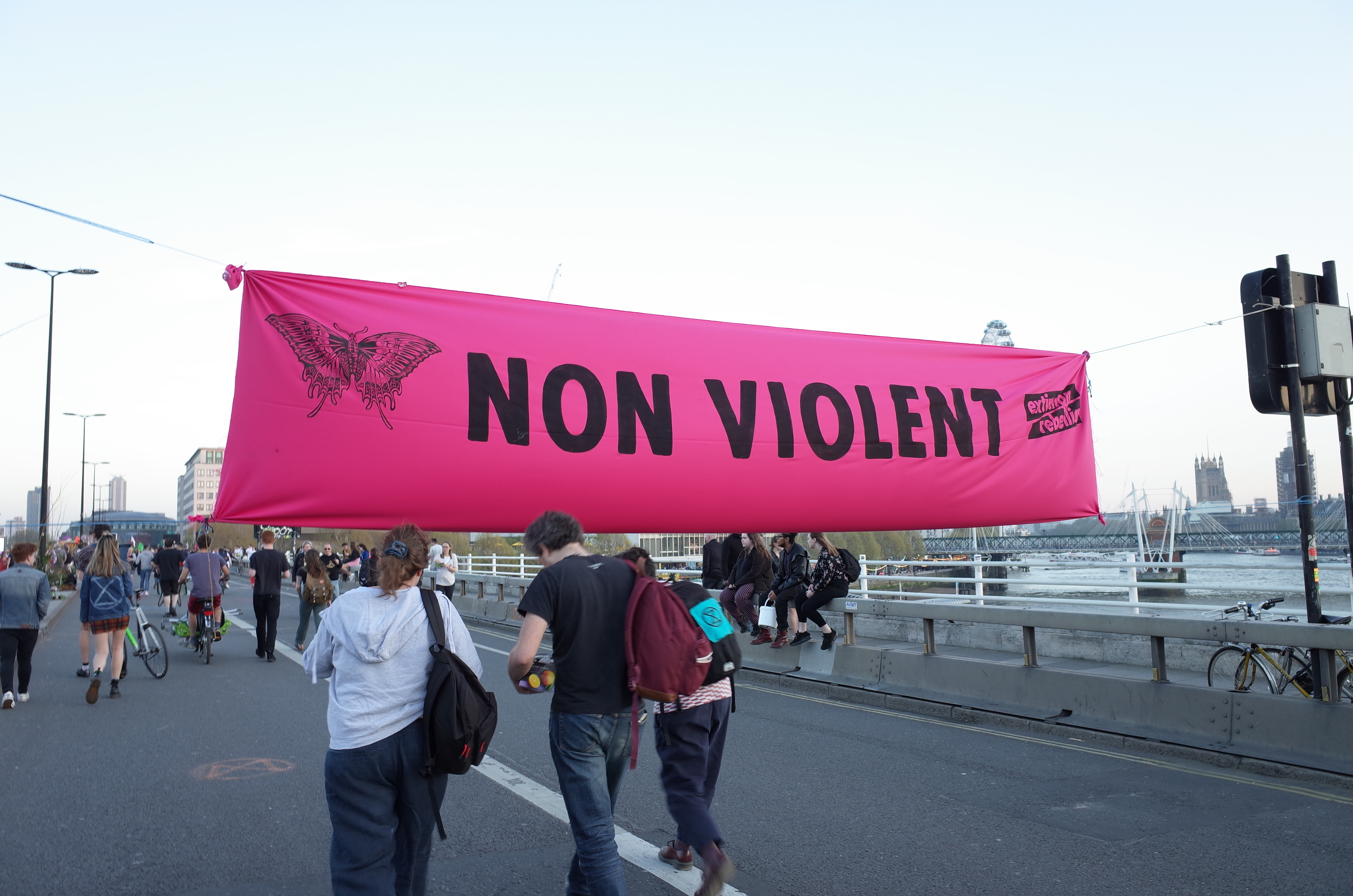 Banner "Non-violent". Extinction Rebellion, London, 19 April 2019.